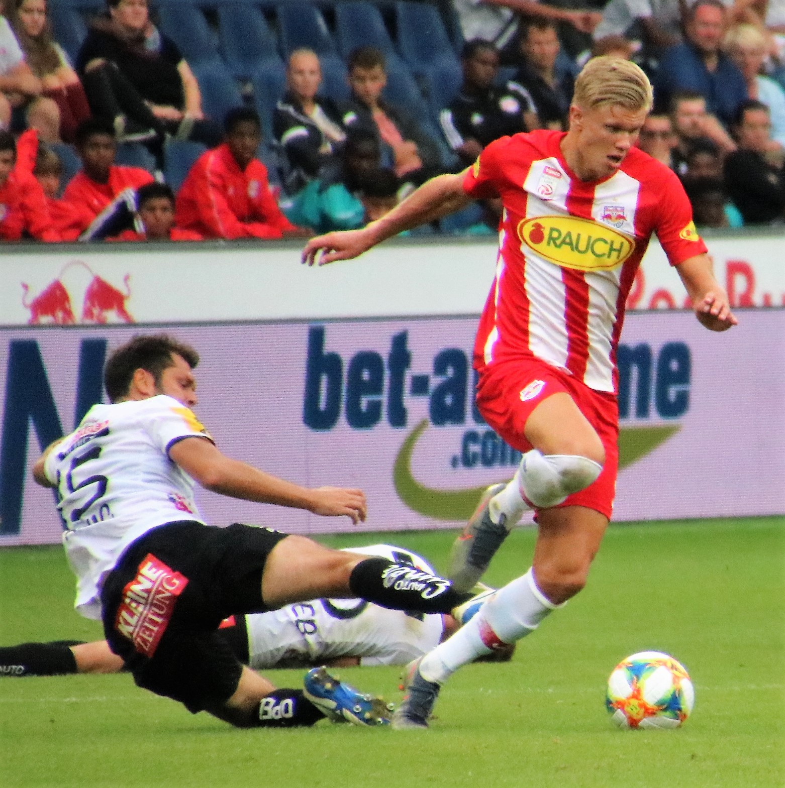 league match Austrian Bundesliga 3rd round